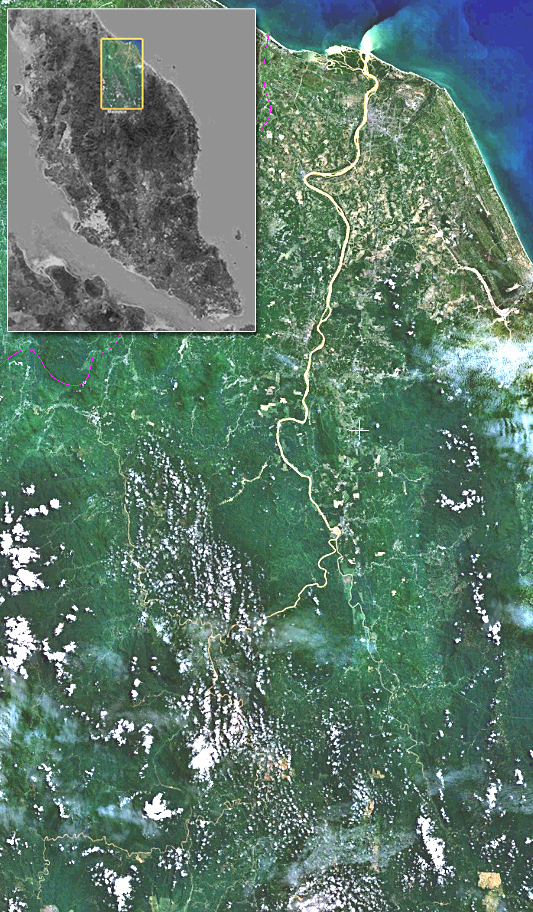 Image composed of screenshots from WorldWind using Landsat7 imagery. The website says "The Landsat Global Mosaic, Blue Marble, and the USGS raster maps and images are all Public Domain." (